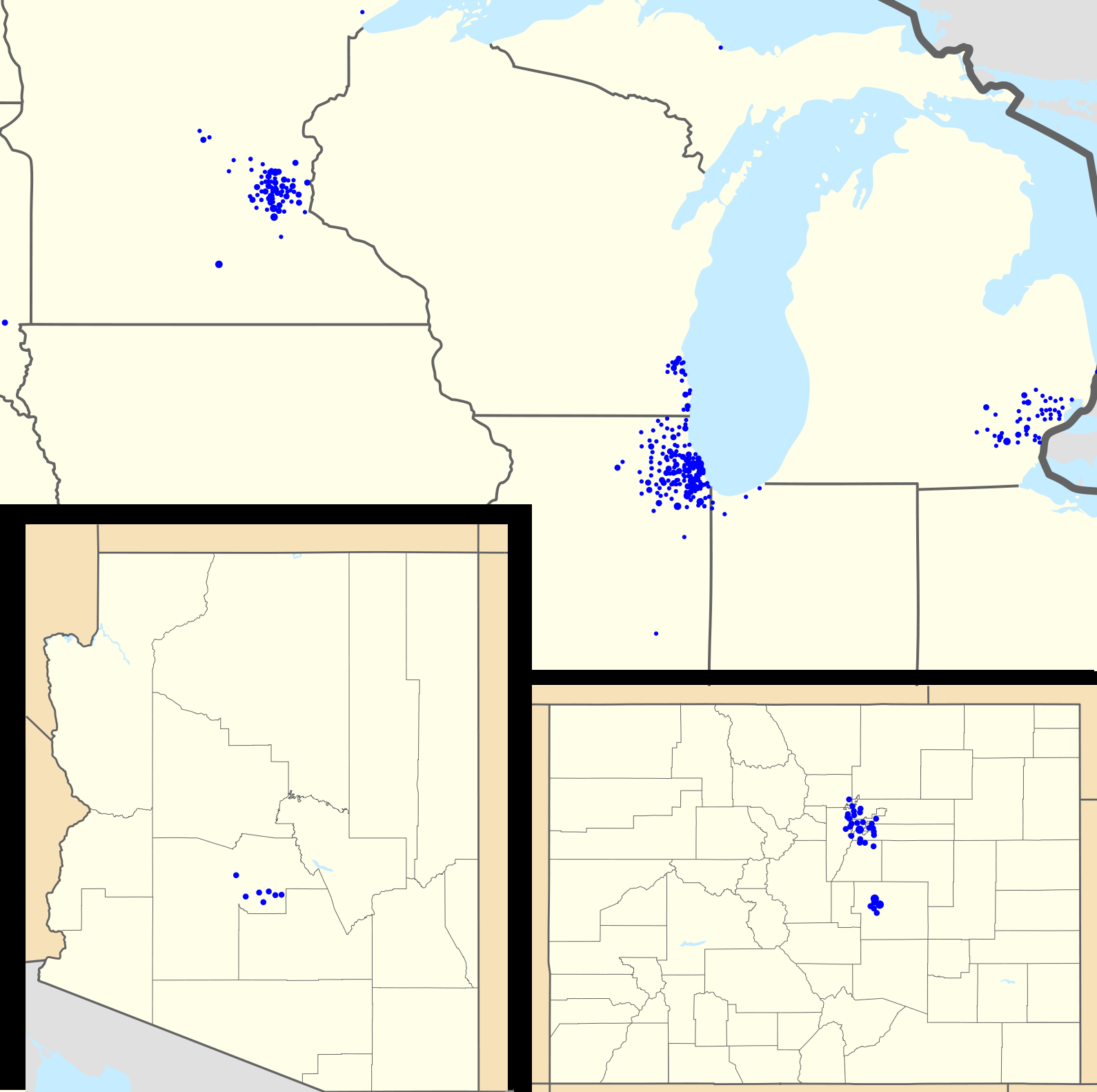 Footprint of TCF branches within the United States. Zip codes with more than one branch have progressively larger points. The main picture is the United States midwest, the lower left: Arizona, the lower-right: Colorado. Image is to scale.